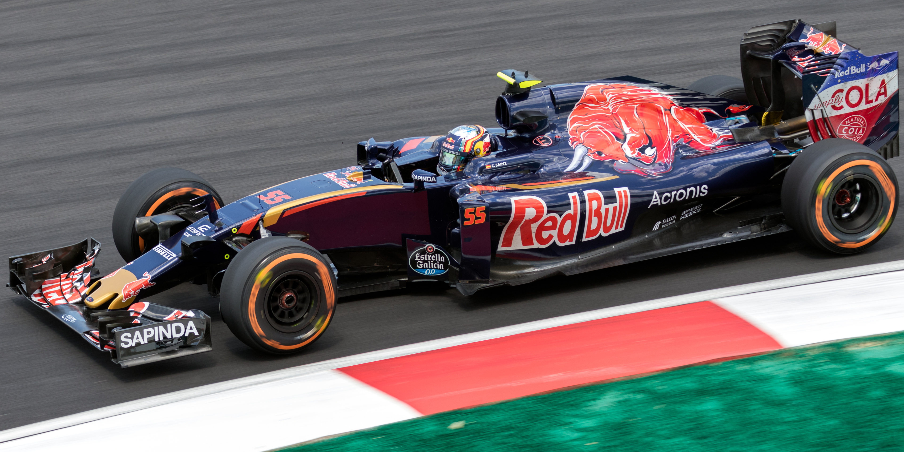 Formula One 2016 Rd.16 Malaysian GP: Carlos Sainz Jr. (Toro Rosso)